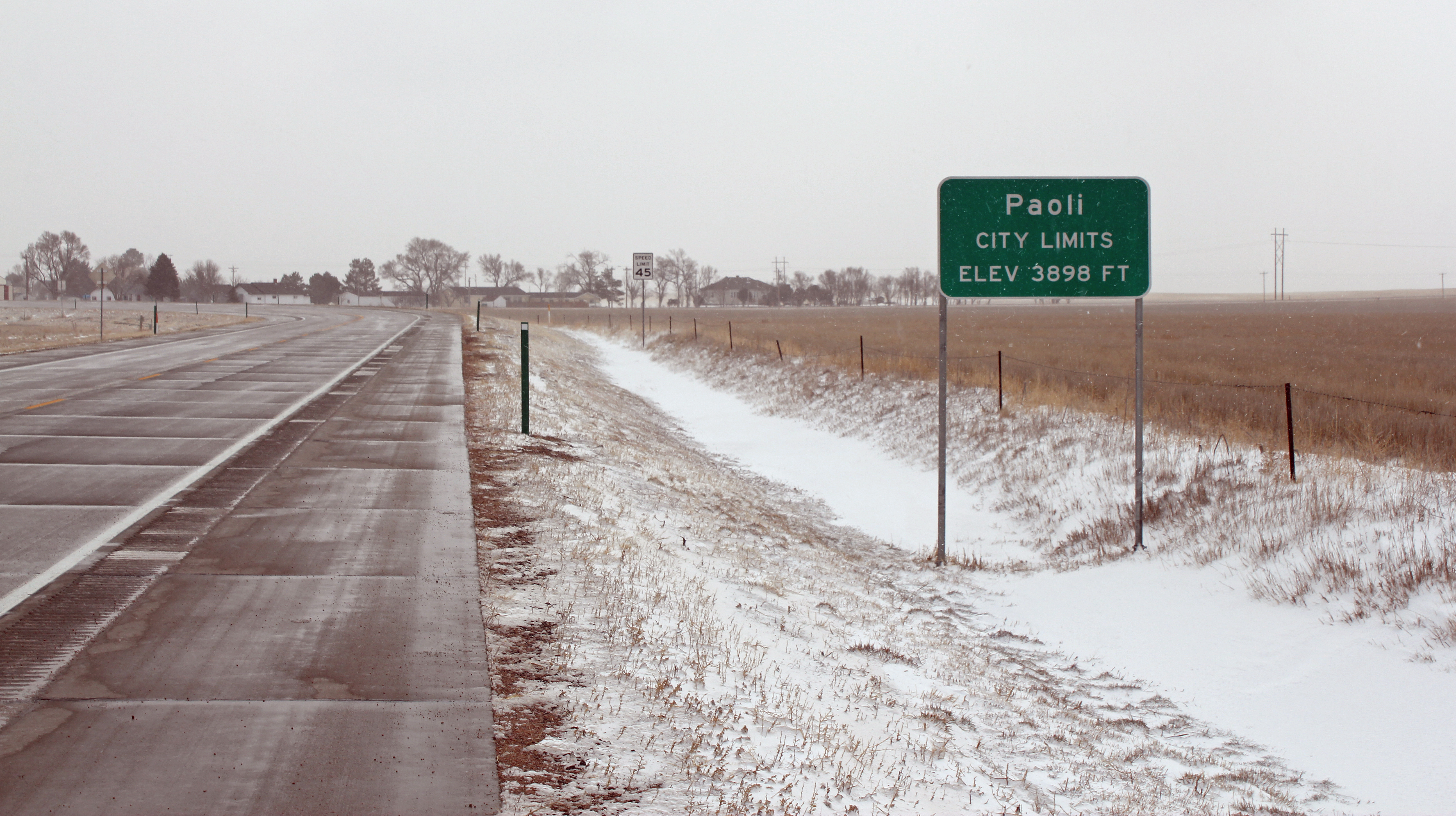 Paoli, Colorado. The view is to the east on U.S. Route 6.